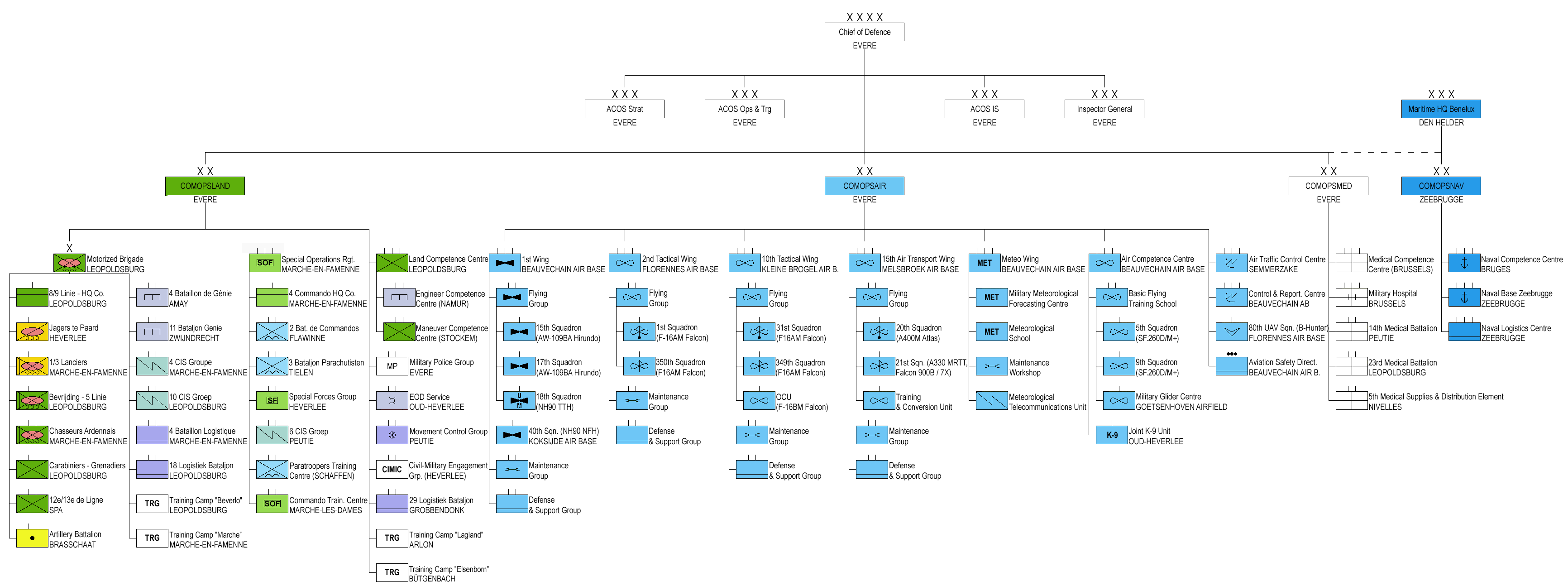 Belgian Armed Forces structure 2020